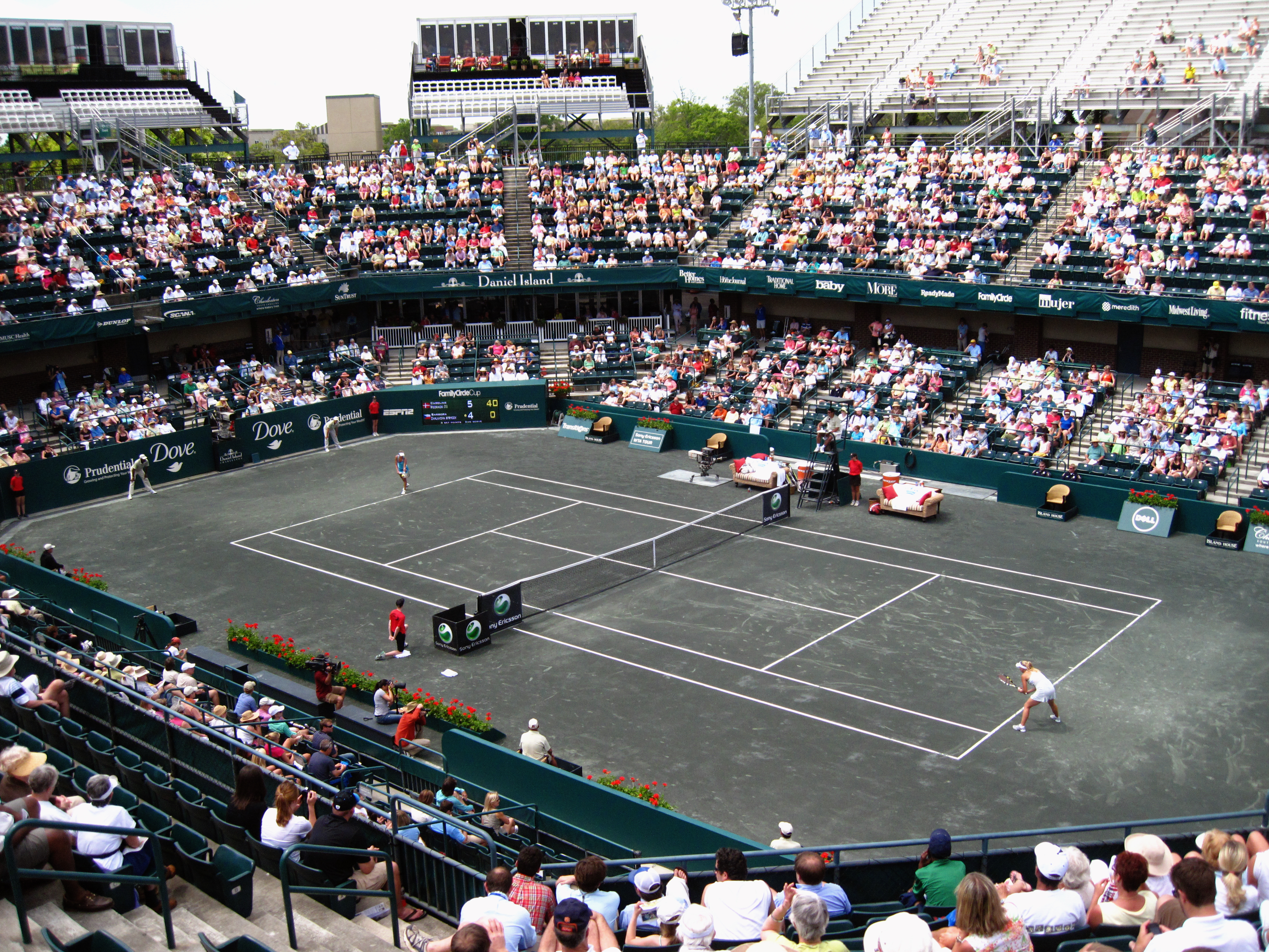 Zahalvova serves to Wozniacki at 4-5 in the first set at the Family Circle Cup.